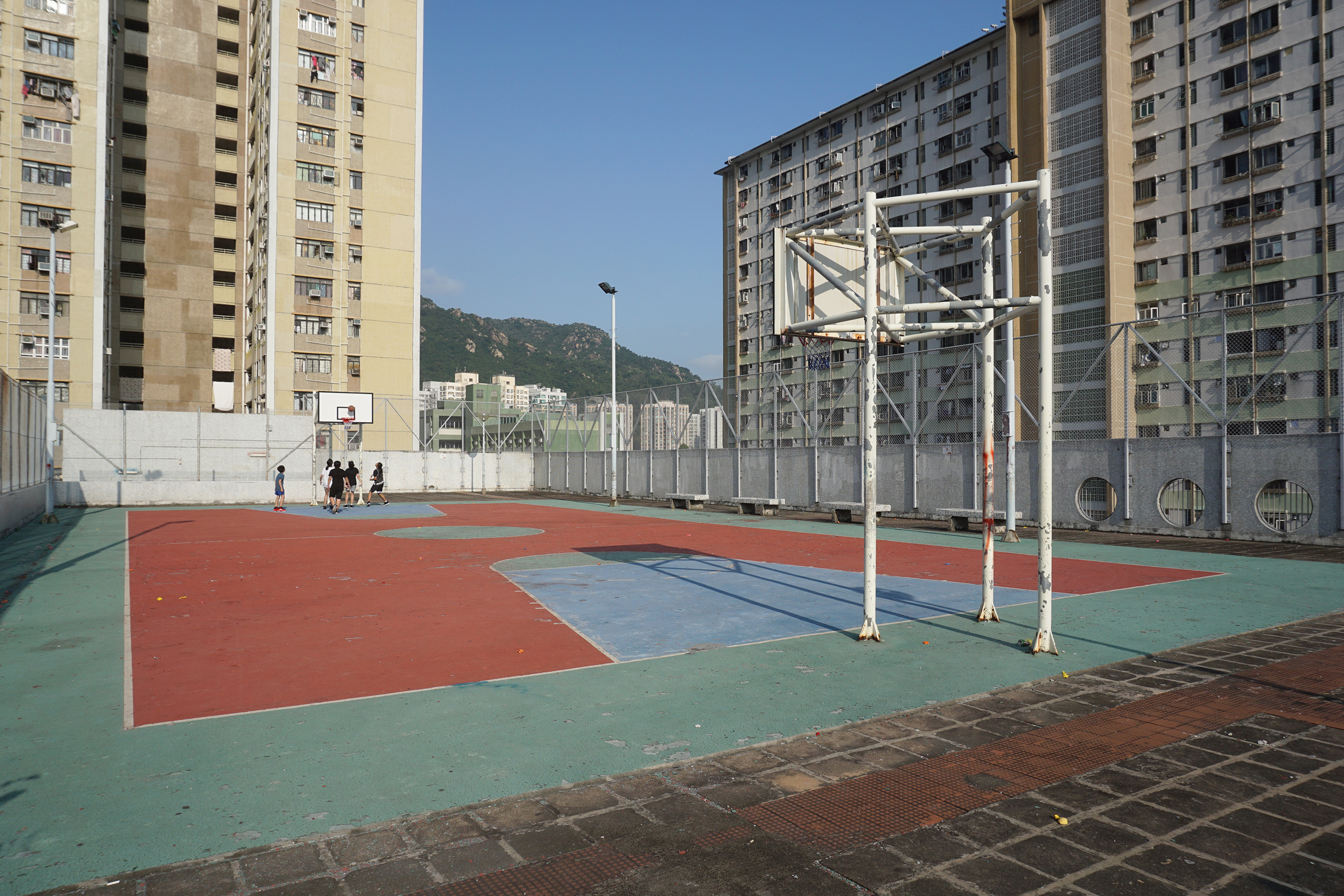 On Ting Estate in Tuen Mun, Hong Kong.